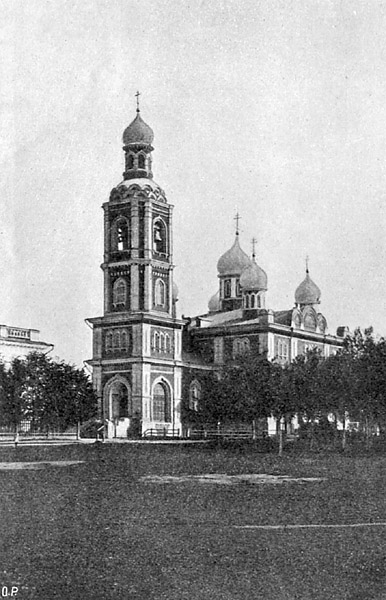 Serpukhov, All Saints Church (All Saints cemetery)